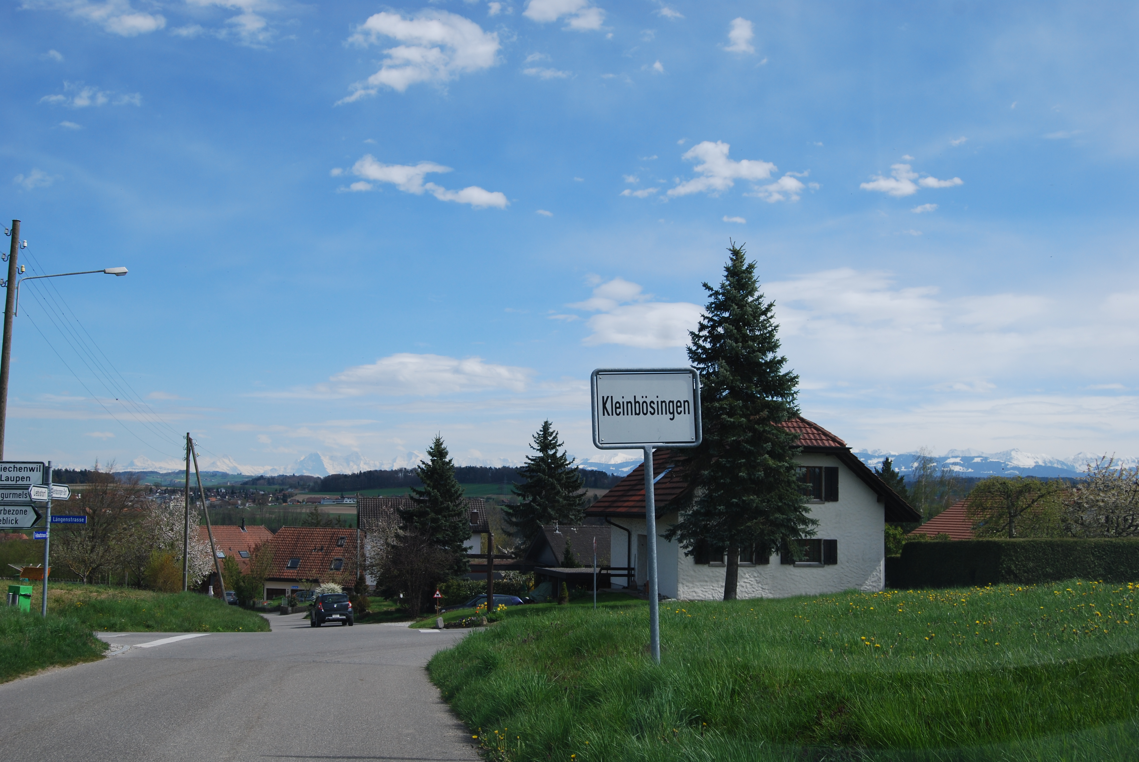 Kleinbösingen, canton of Fribourg, SwitzerlandEsperanto: Kleinbösingen, Kantono Friburgo, Svislando